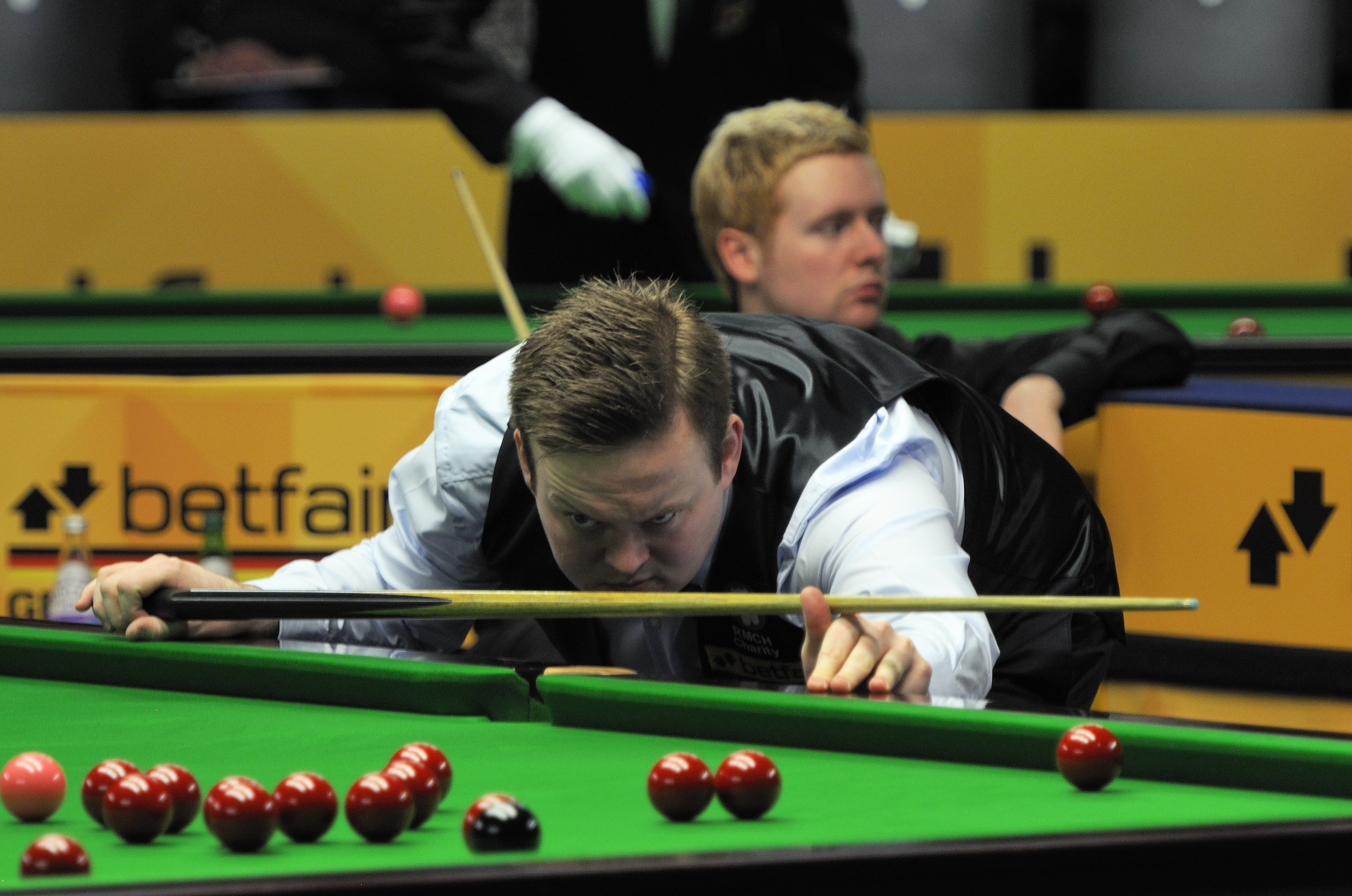 Picture taken in Berlin during the Snooker German Masters in 2013. Shaun Murphy and Ben Woollaston.